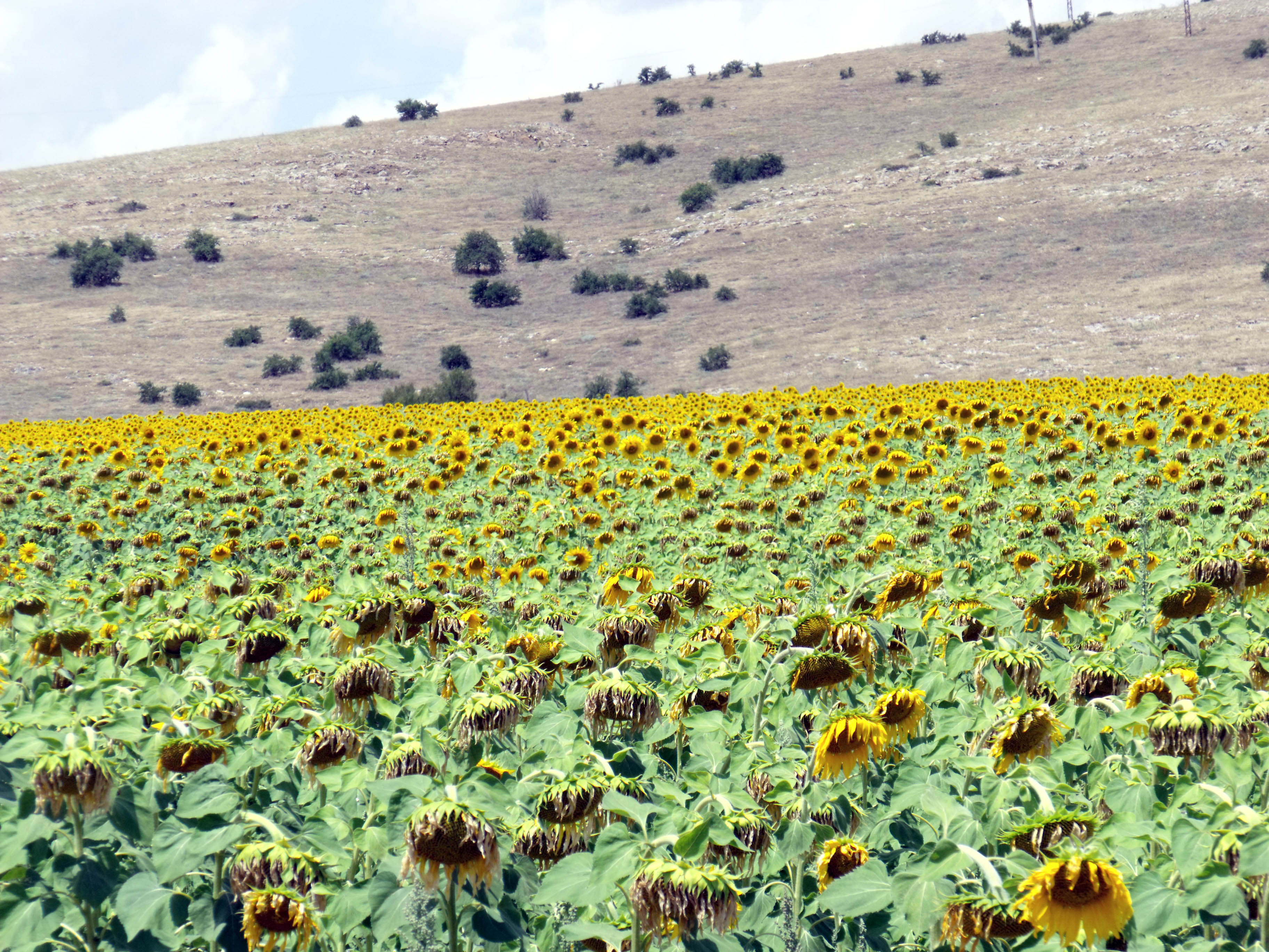 The Sunflowers